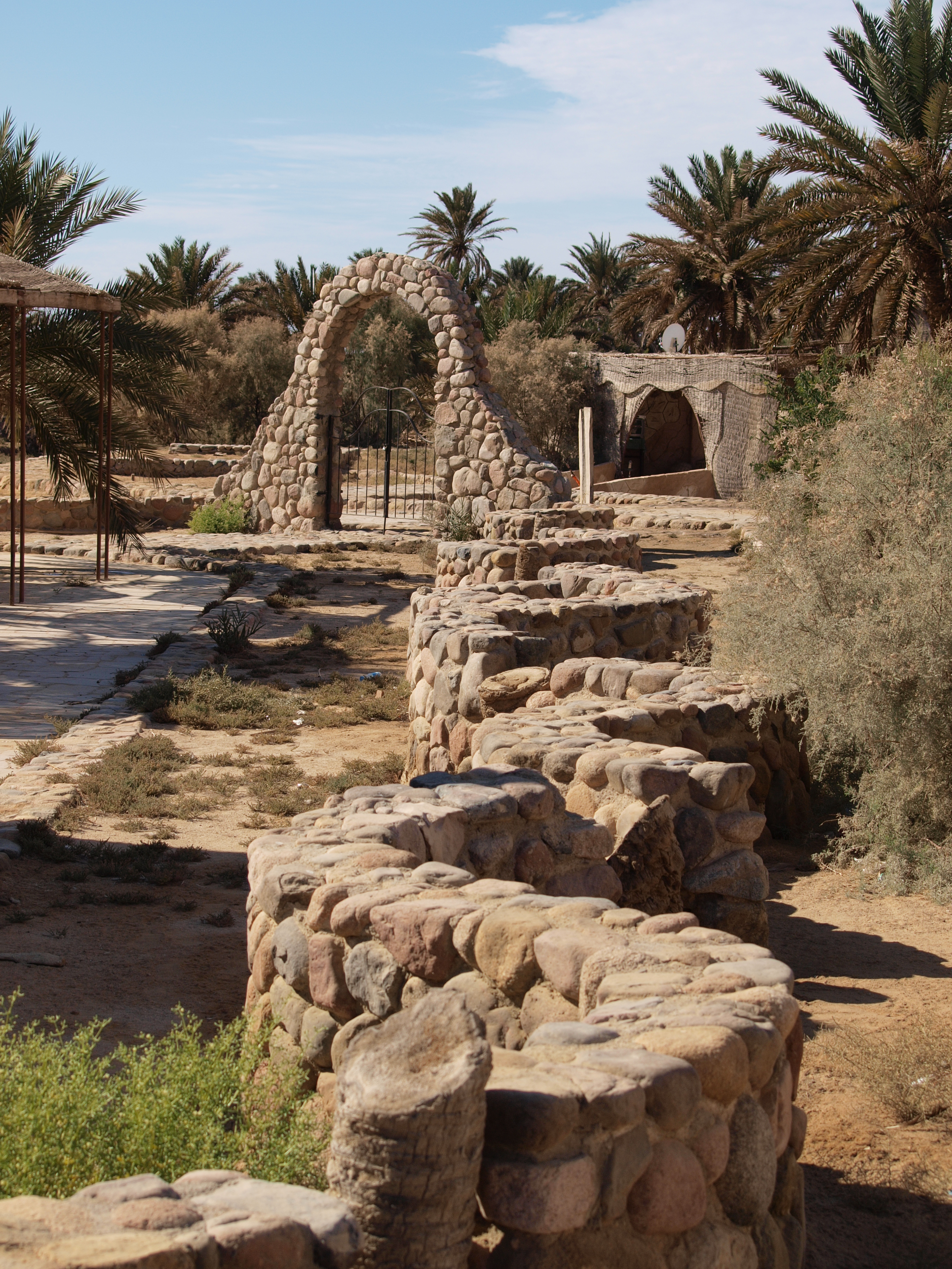 Hammam Musa (Moses' Bath), hot spring, El-Tor. South Sinai. Egypt.